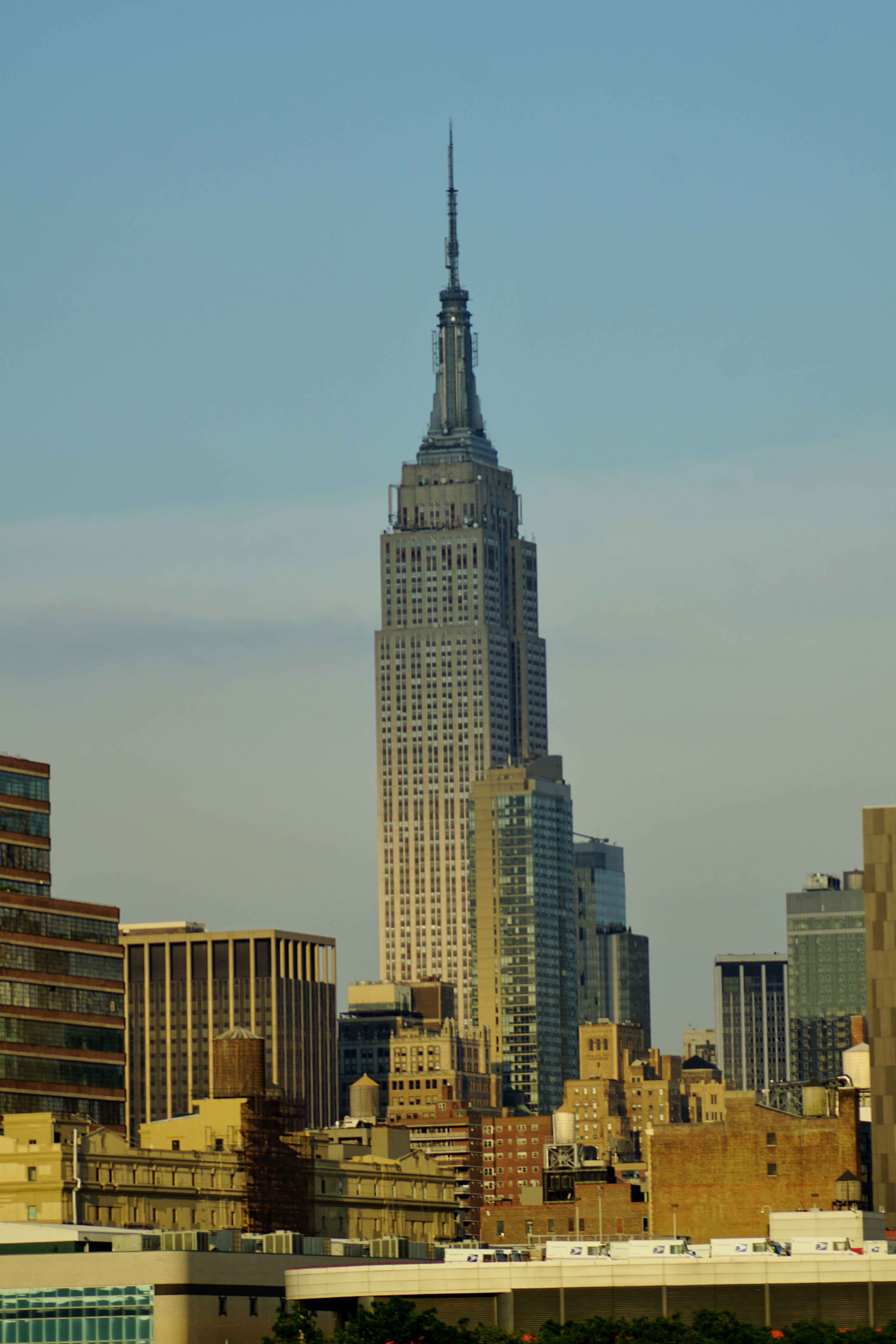 Empire States Building and surrounding buildings as seen from the Hudson river near sunset.